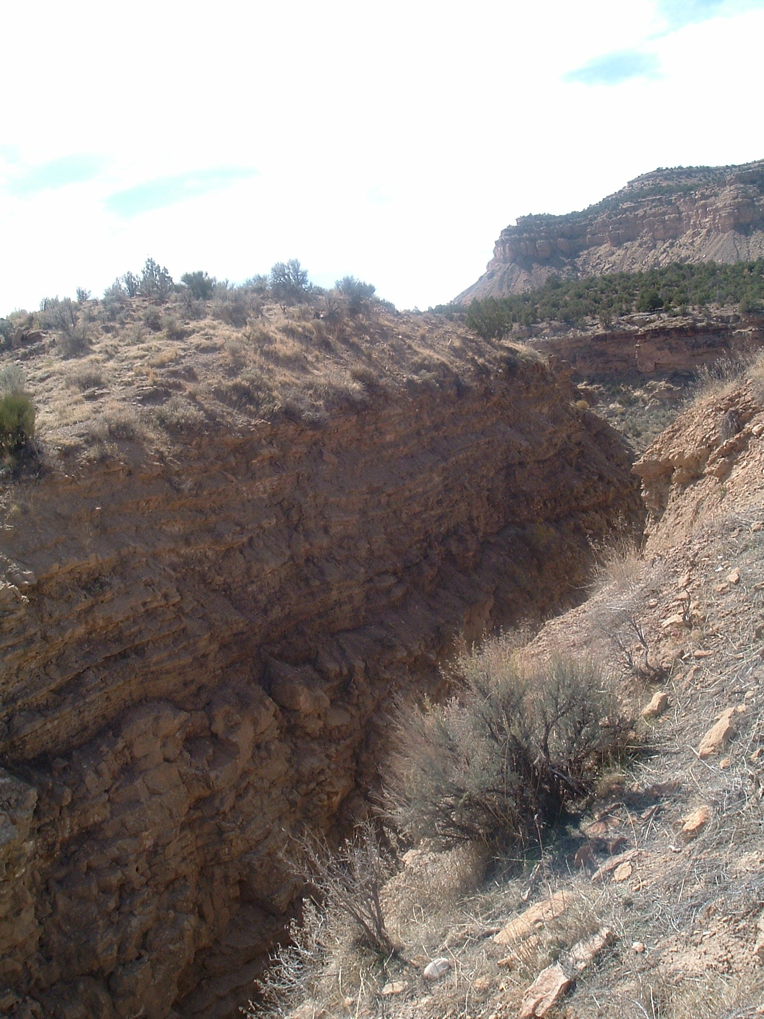 Cut along the former Ballard and Thompson Railroad along the route to Sego